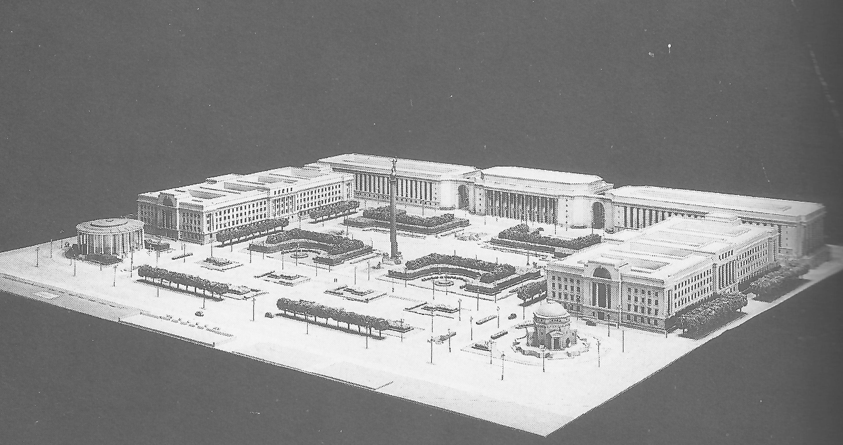 An architect's model for the grand civic centre proposed for Birmingham, England. Only the Hall of Memory and part of Baskerville House were built.